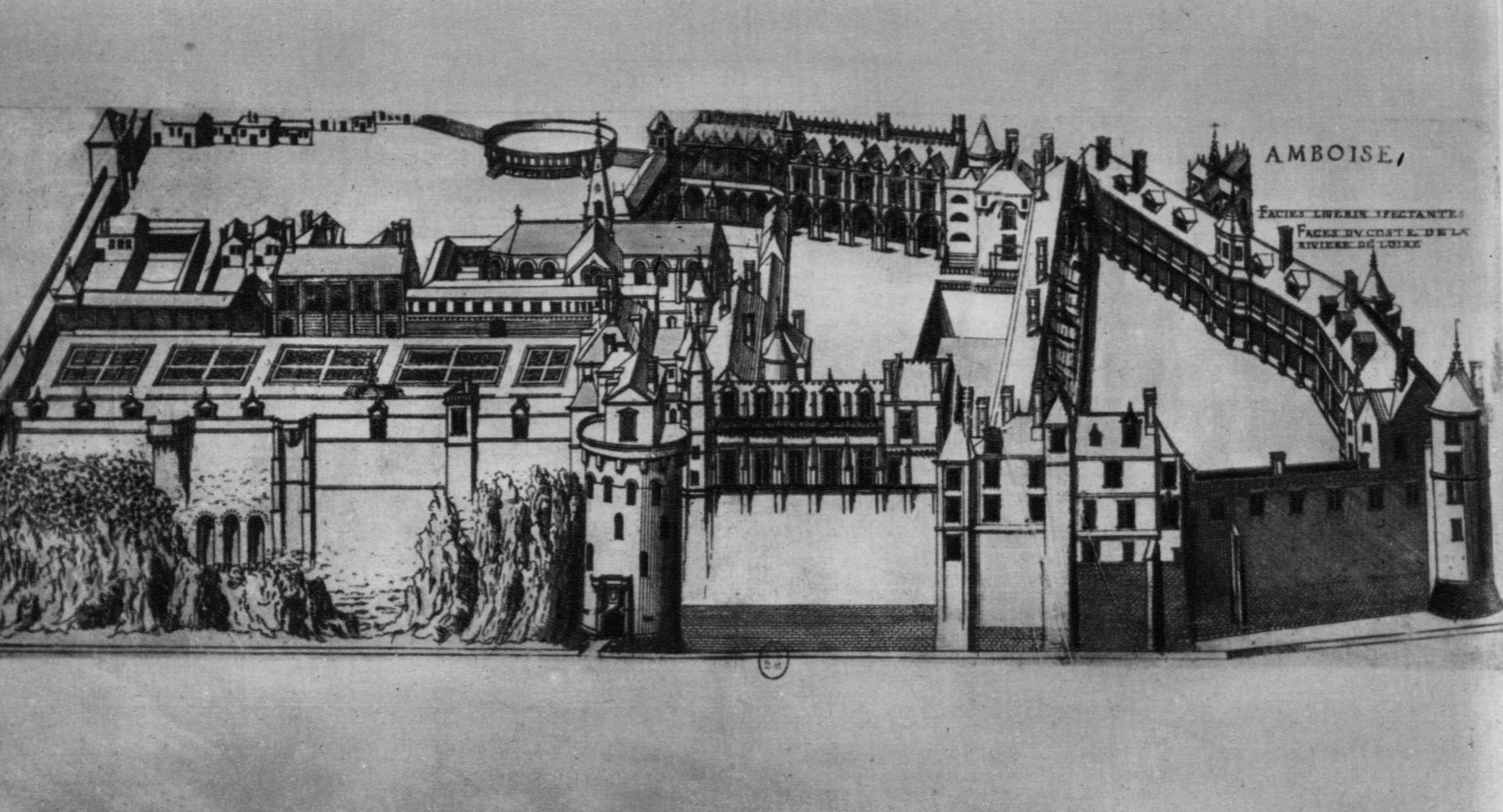 Engraving of the XVI century showing the chateau of Amboise